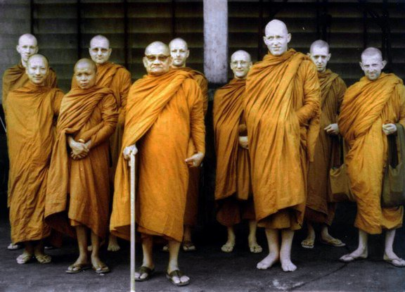 Ajahn Chah with his resident Sangha.